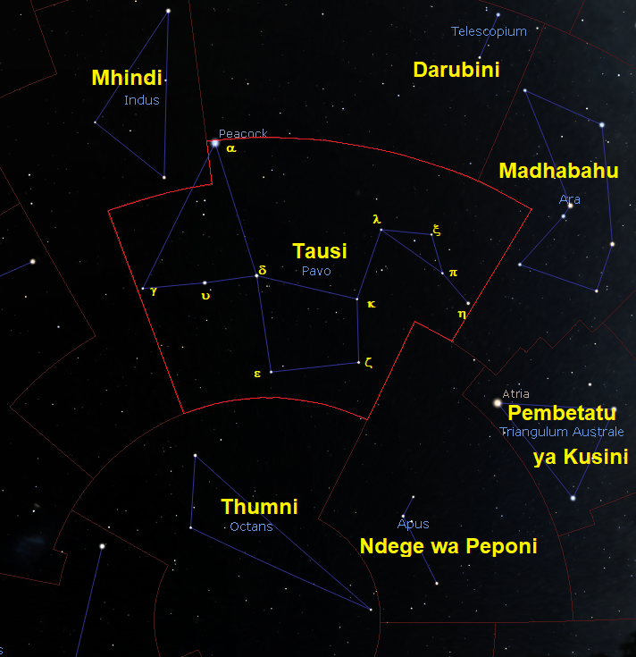 Constellation Pavo as seen from South Africa, swahili labelled Kiswahili: Kundinyota ya Tausi - Pavo jinsi inavyoonekana Afrika Kusini